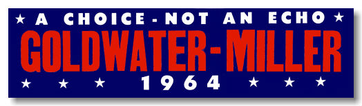 Campaign logo of Barry Goldwater 1964